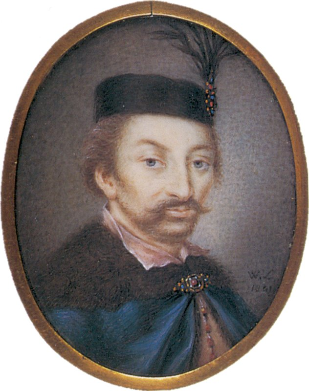 Hetman Stefan Żółkiewski, waterpaint, goache on ivory, 4.9x3.8cm, Polish Museum in Rapperswil, Switzerland